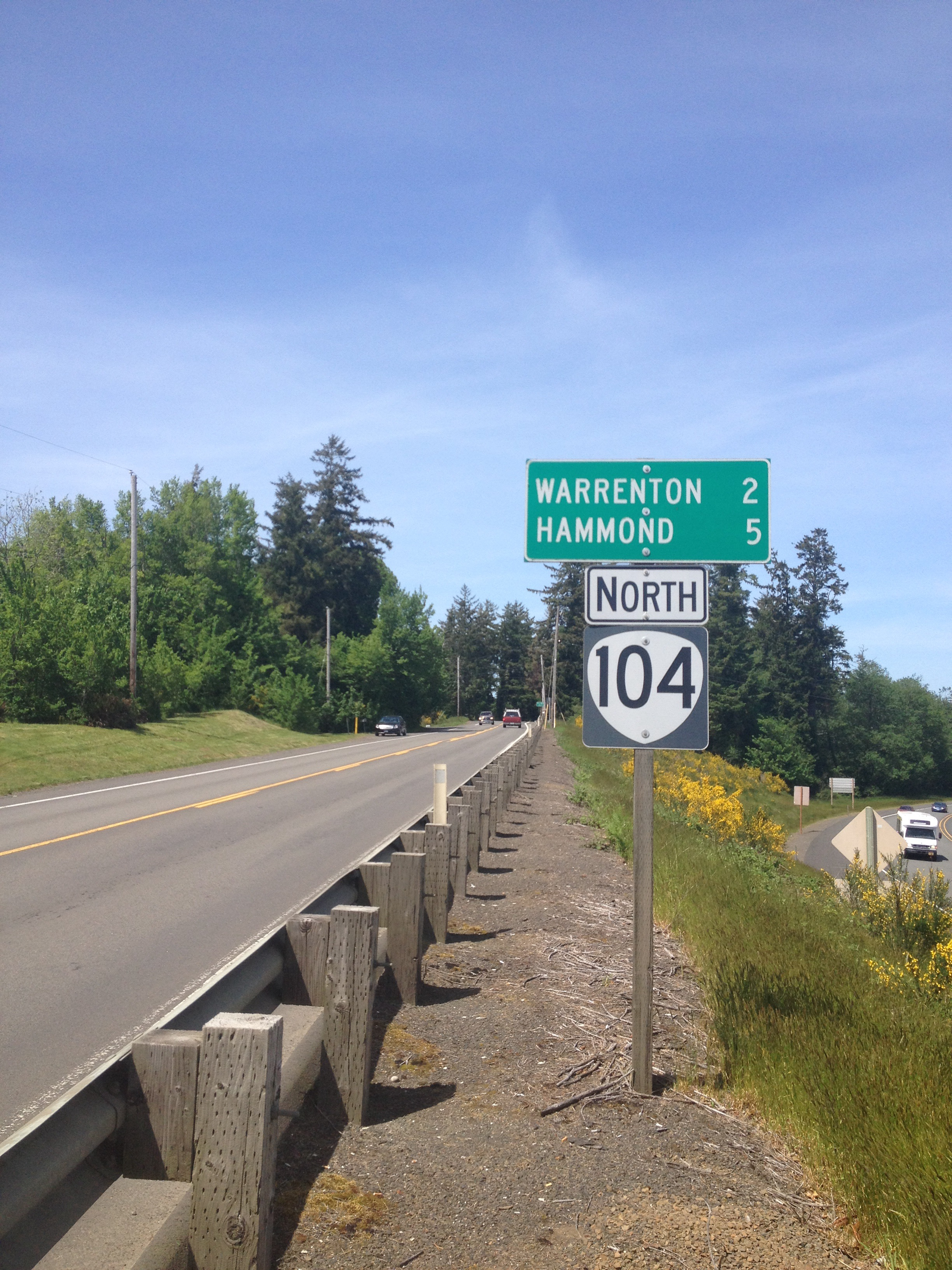 Start of Oregon Route 104 in Warrenton.